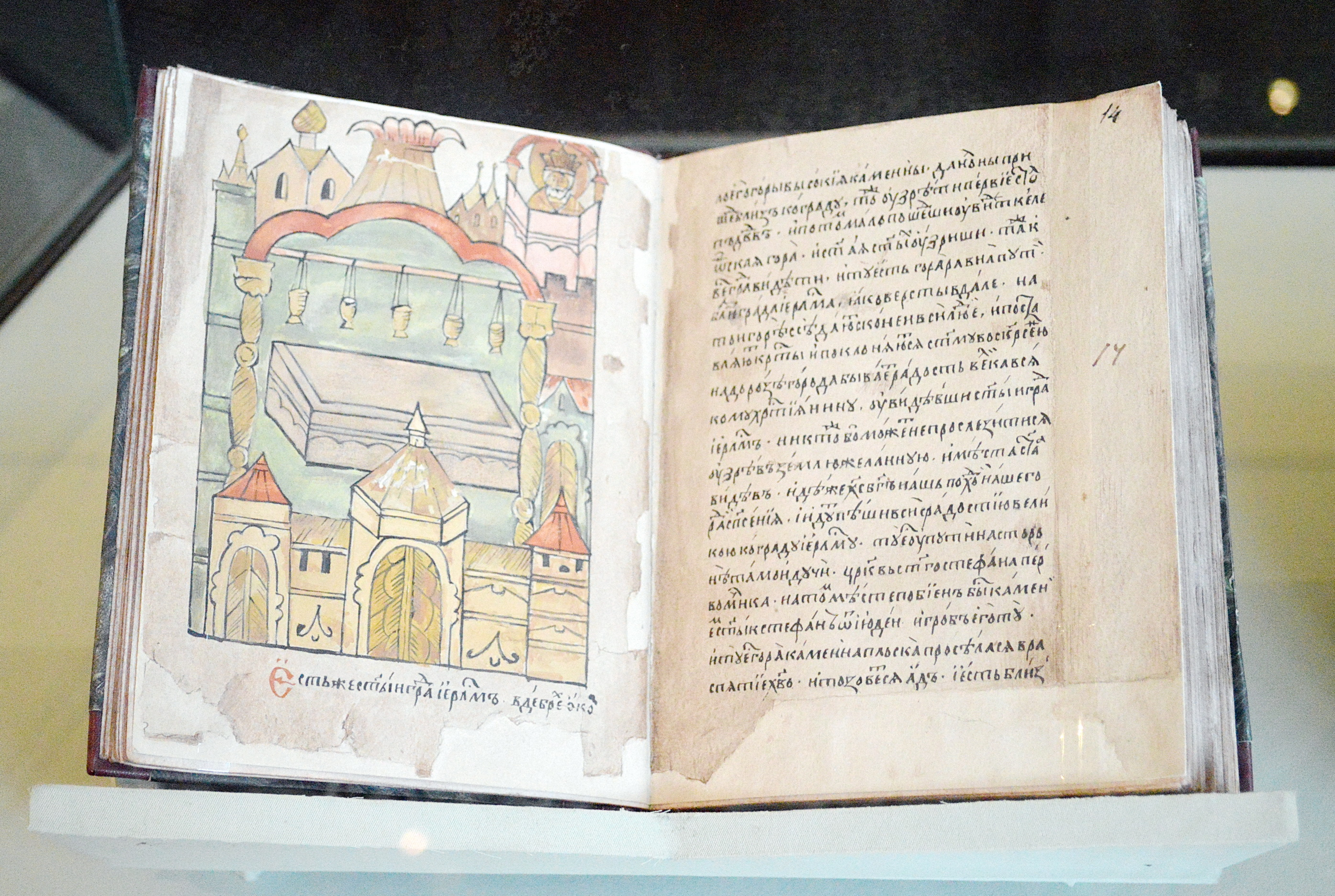 Pilgrimage of Daniel of Kiev (begin of 12 c.), first half of 17 c. manuscript.